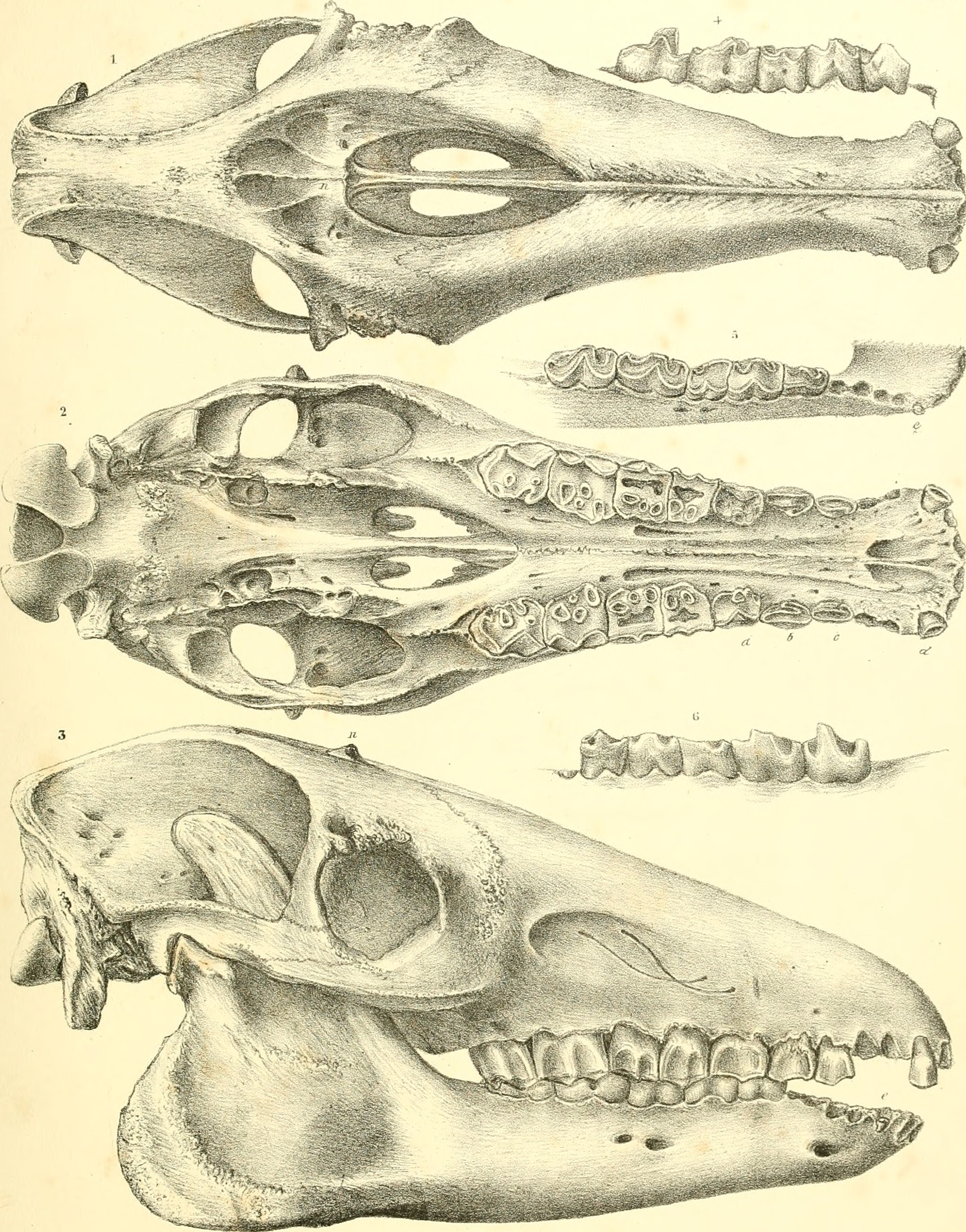 Title: Anales del Museo Público de Buenos Aires Year: 1864 (1860s) Authors: Museo Público de Buenos Aires; Sociedad Paleontológica de Buenos Aires. Actas de la Sociedad Paleontológica de Buenos Aires; Museo Público de Buenos Aires. Boletin de Museo Público de Buenos Aires, 1868-1871 Subjects: Natural history; Paleontology Publisher: Buenos Aires : El Museo Text Appearing Before Image: PACHYDERMA GenQs OPÍSTHQRHINUS ex Bvavard. PL.I Text Appearing After Image: A.Bj-upc/rd ad ria/.Li¿/¿oa. Li/ot/J-a/ia Ju/íO Beer. Ca/le Pfrú,'/. B.Jsa O.FALCONERII 1 3 la Cabeza 4 . S.muelas (lado derecho de la mandíbula) Vs nal.